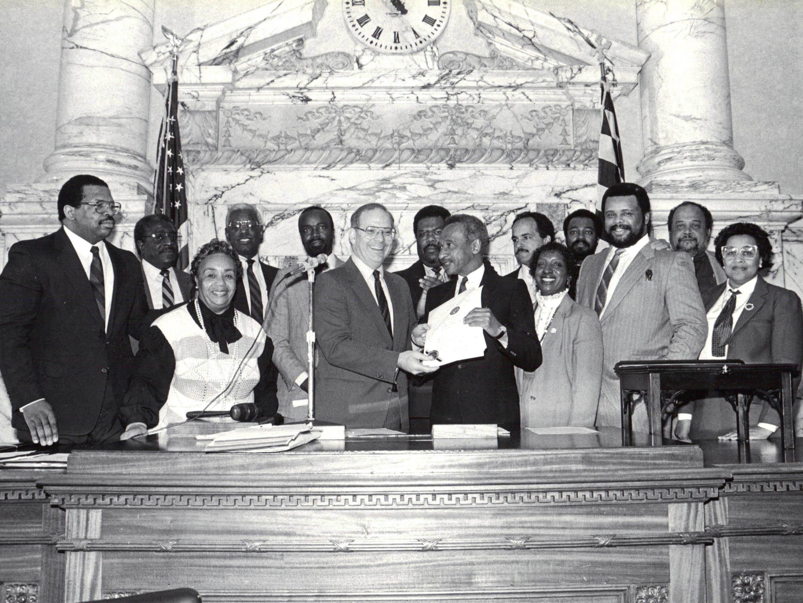 maryland black caucus honoring parren mitchel